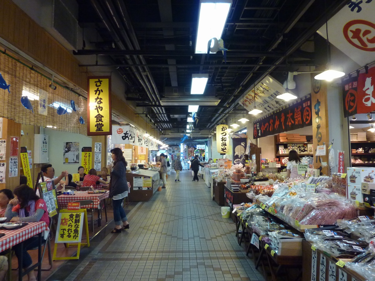 Makurazaki Osakana (Fish) Center (Makurazaki City, Kagoshima, Japan)